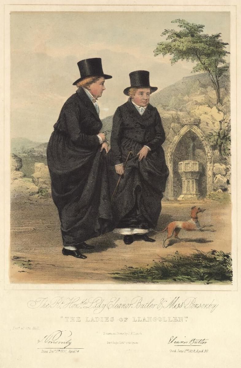 A portrait from the Welsh Portrait Collection at the National Library of Wales. Depicted person: Ladies of Llangollen – Eleanor Butler and Sarah Ponsonby